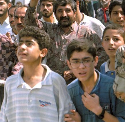 Supreme Leader of Iran, Amol -June 11, 1998 (14) (Cropped)